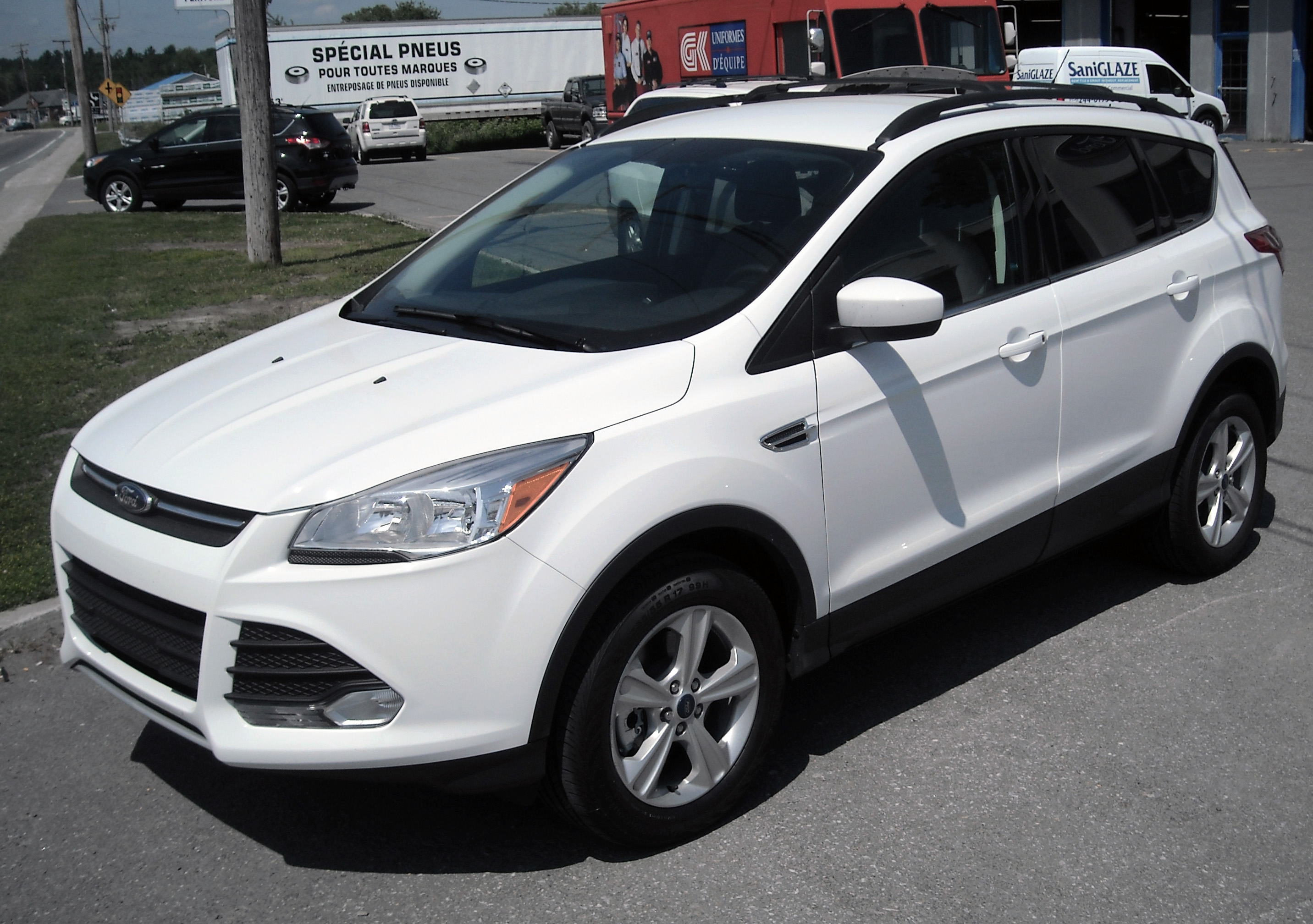 2013 Ford Escape, SEL trim (FWD) at a dealership in Sainte-Julienne, Quebec, Canada.